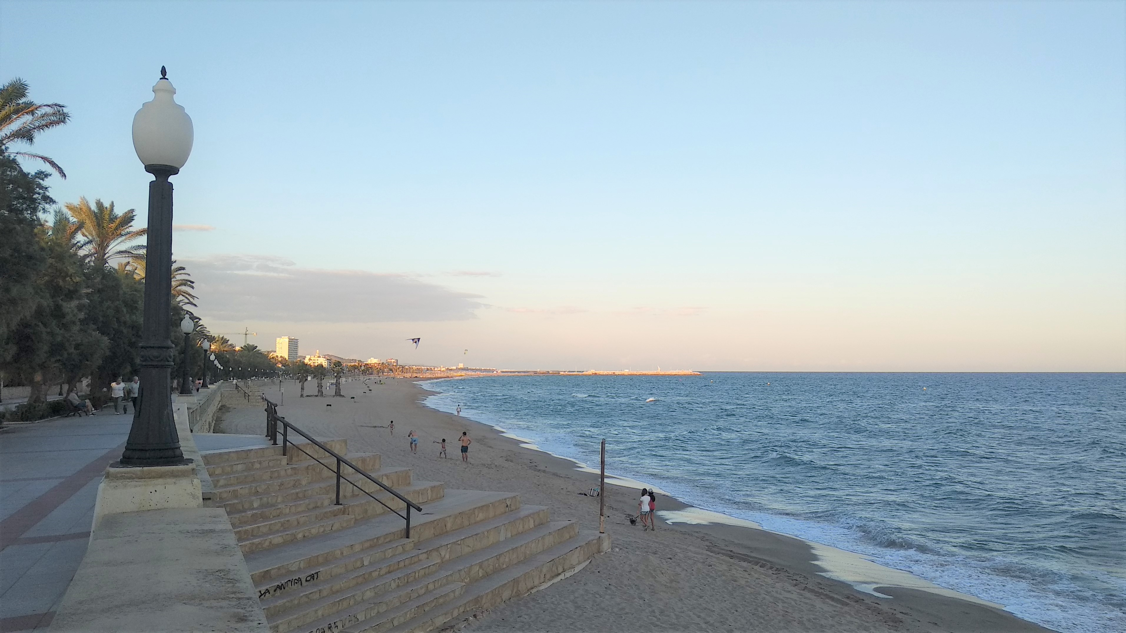 Comarruga Beach. Sunset. September 2019